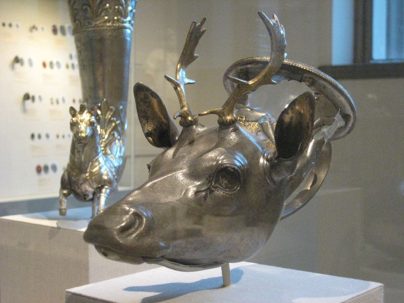 Greek Gilt-silver Rhyton, Late Classical or Early Hellenistic, ca. 4th century B.C. Metropolitan Museum of Art, New York city.